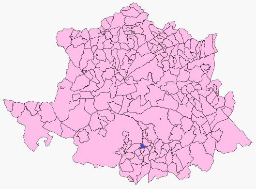 Botija